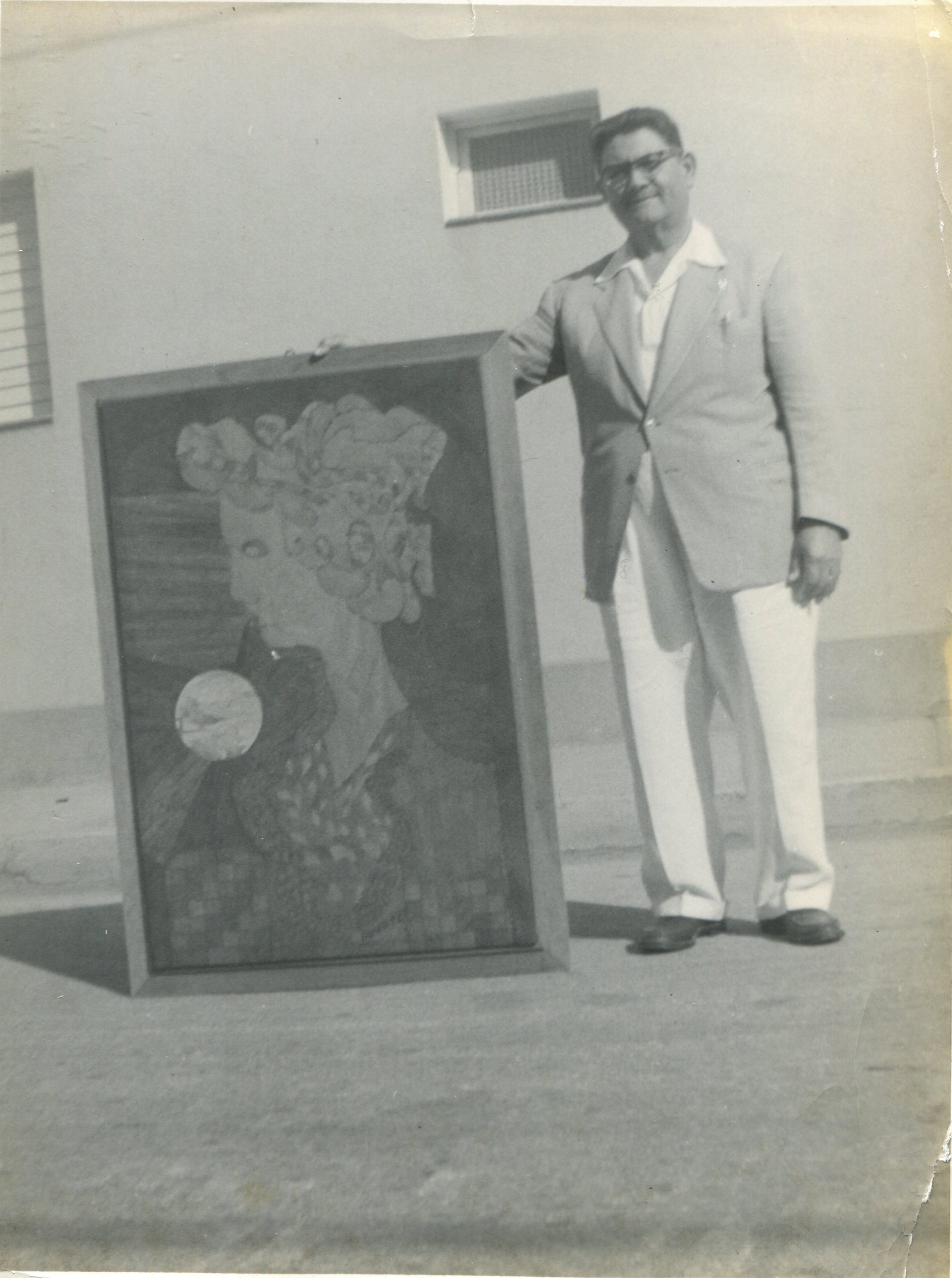 Fotografia personal donada por el nieto del pintor